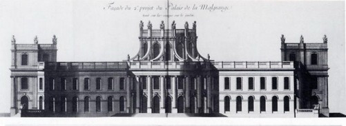 Château de la Malgrange